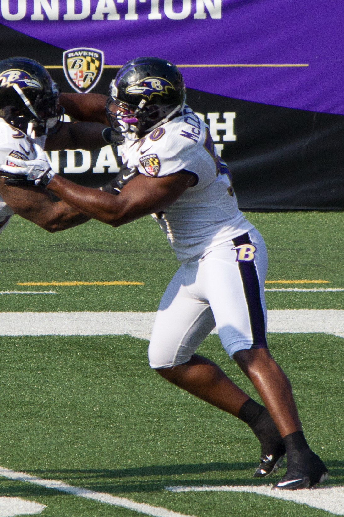 Albert McClellan at Ravens M&T Bank Stadium practice in August 2012